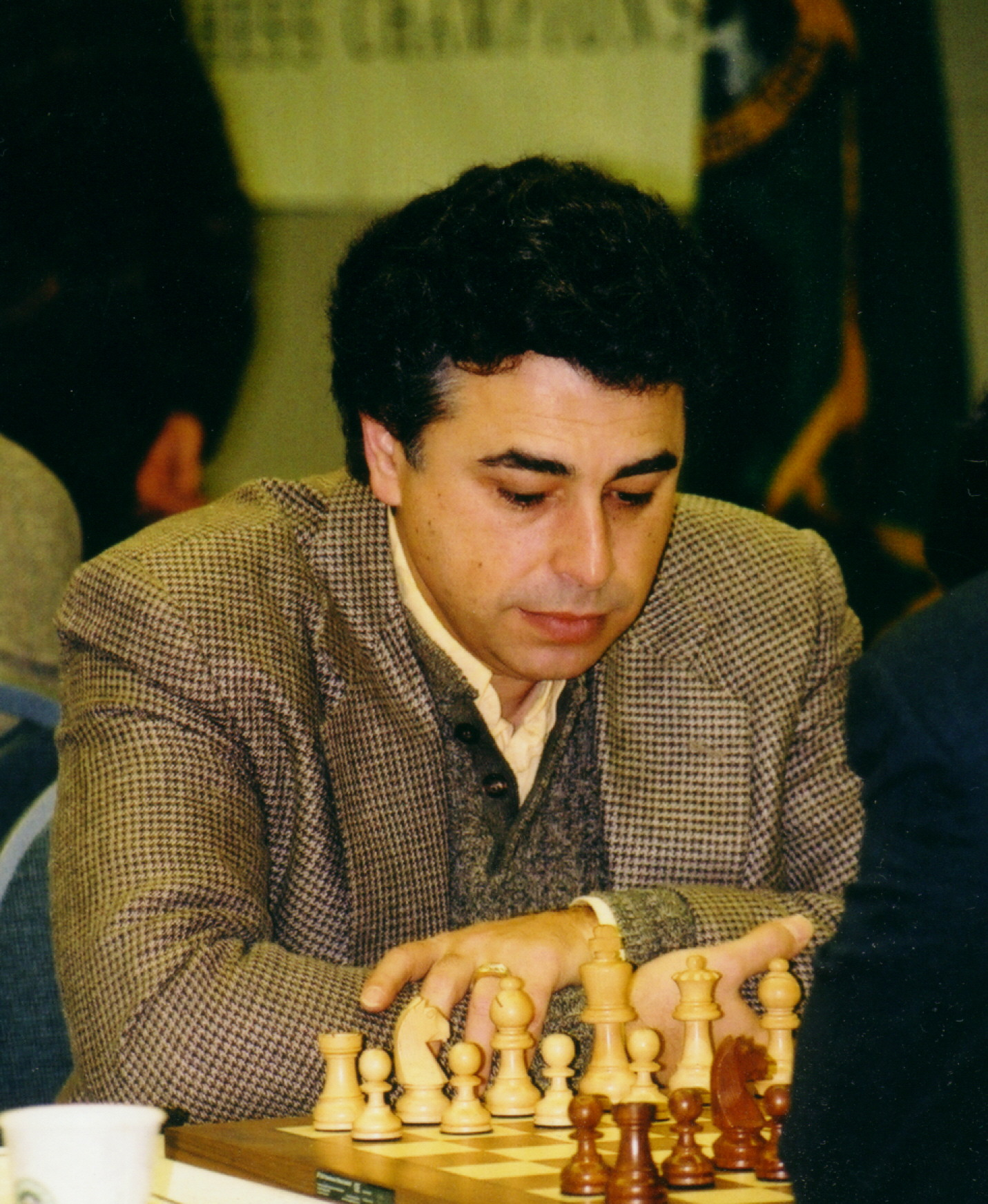 Yasser Seirawan at the 2003 U.S. Chess Championships in Seattle, Washington.